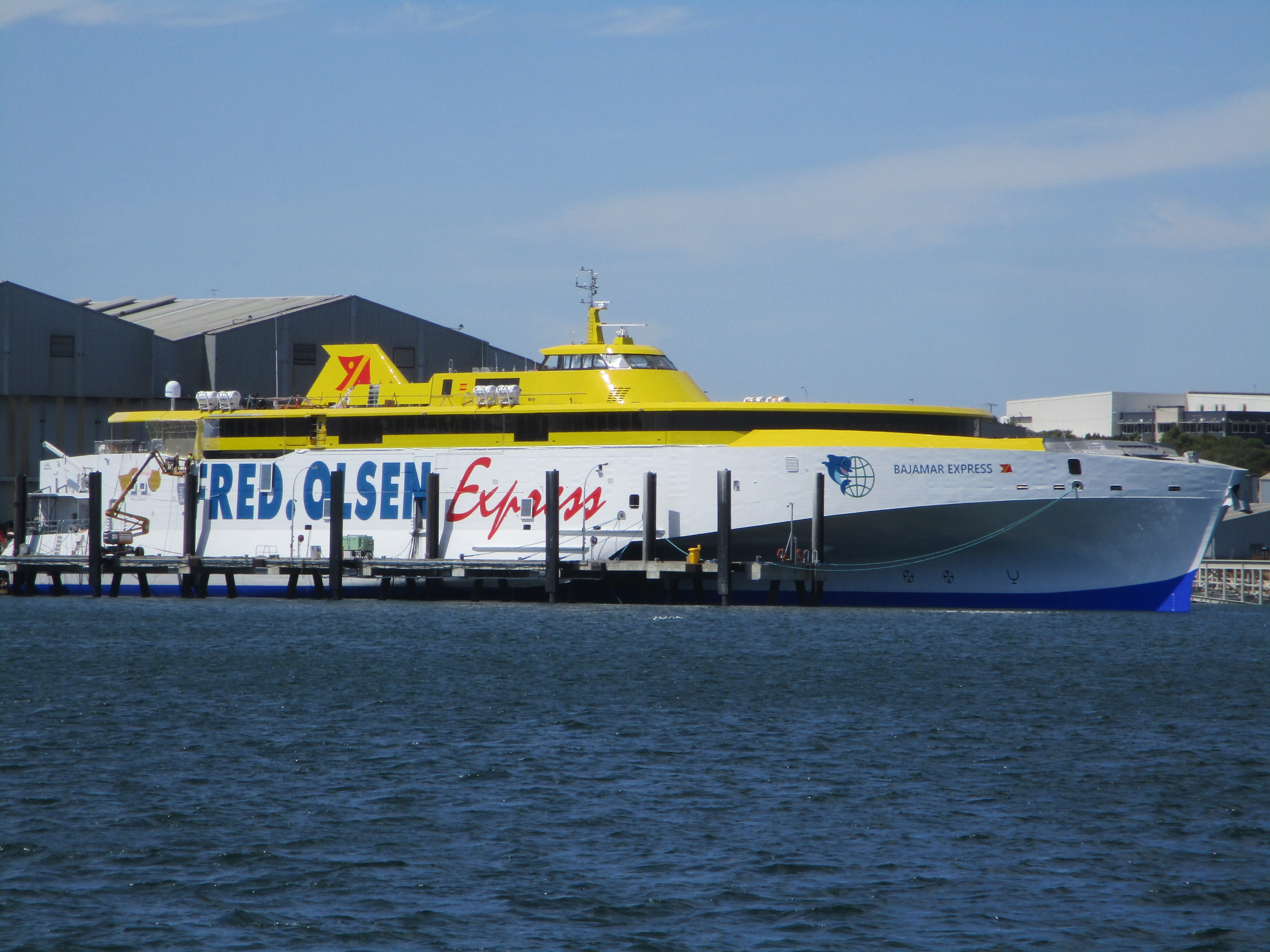 The Bajamar Express, a trimaran ferries under construction for Fred. Olsen Express at Austal shipyards in Henderson, Western Australia.